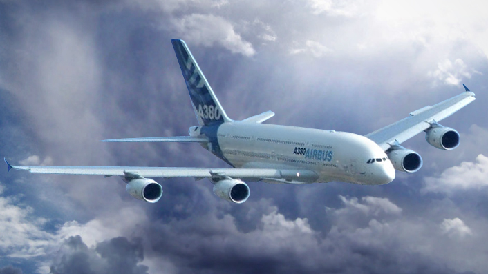 Composite photo of an Airbus A380. This is a retouched picture, which means that it has been digitally altered from its original version. Modifications: assembled two photos together.